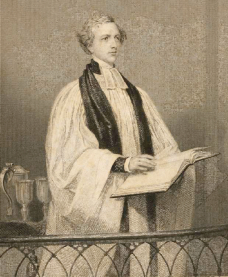 Hugh Boyd M’Neile (1975-1879) circa 40 years of age. An engraving by William Finden (1787-1852), after a portrait by A. Robertson; frontispiece to Charlotte Elizabeth (Tonna)'s, The Protestant Annual 1841, Francis Baisler, (London), 1840.